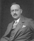 Lord Dunsany, author, early 40's age